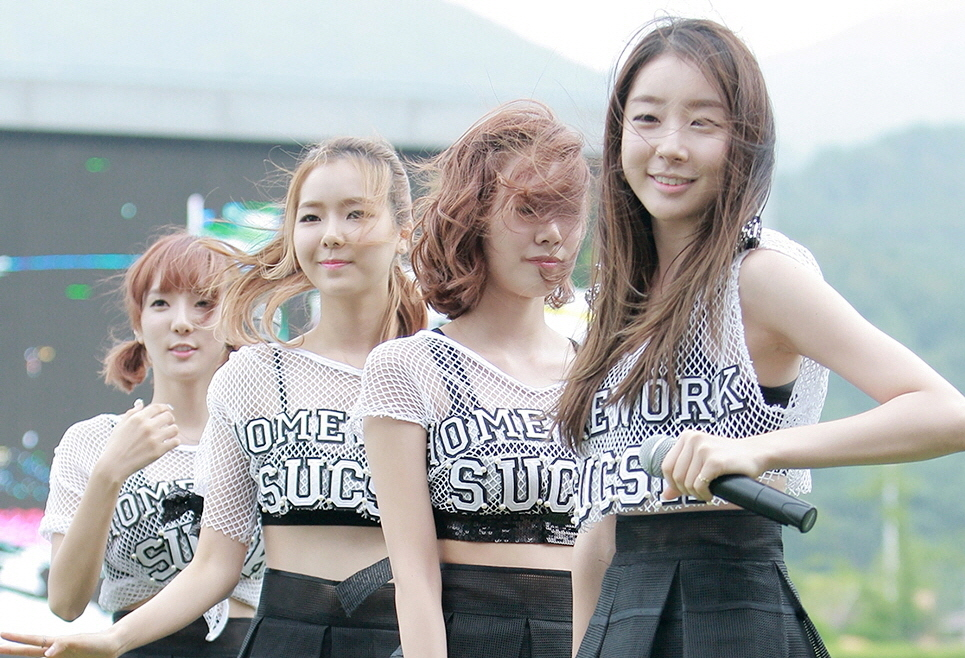 Stellar performing at Seoul Racecourse Park, Gwacheon, Gyeonggi-do, South Korea, in August 2013